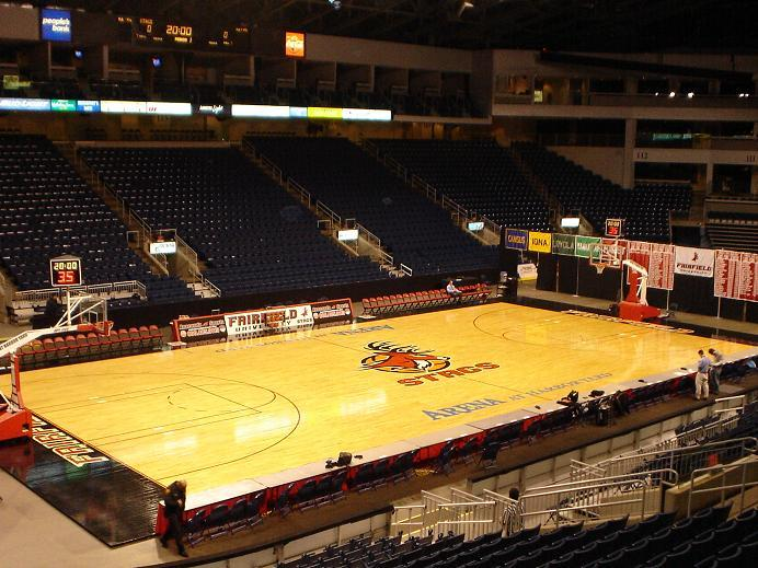 Arena at Harbor Yards setup for Fairfield Stags basketball